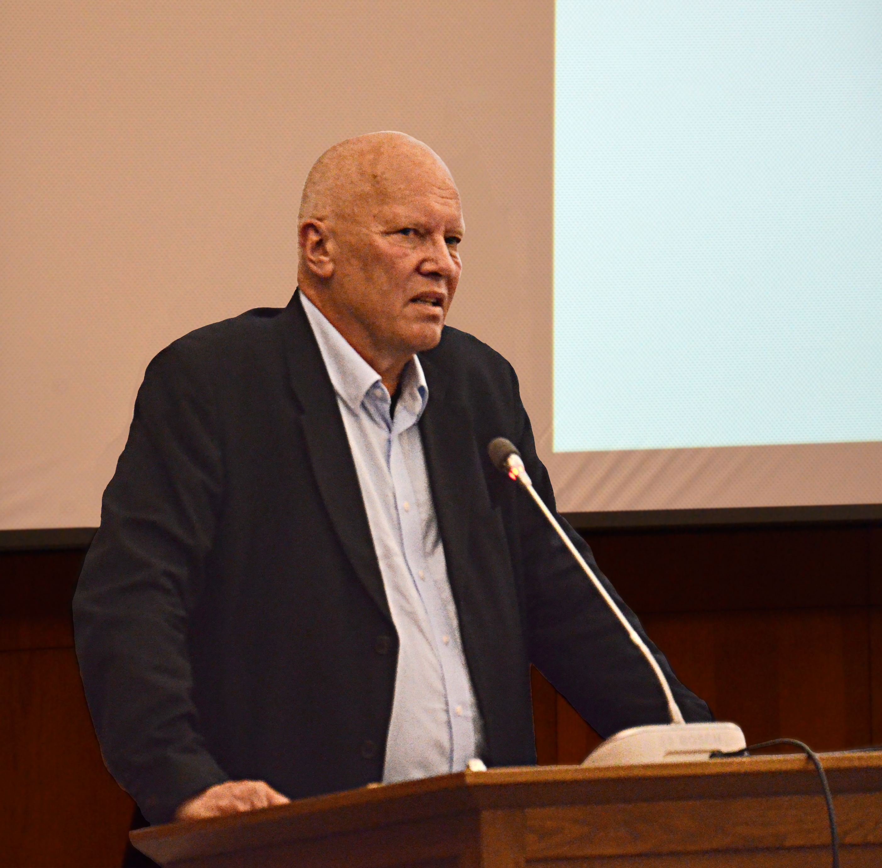 Lars-Erik Liljelund speaking on a debate witch launched European Sustainable Development Week in Czech Republic.